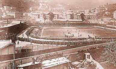 Old Stadio di Marassi, Genoa, Italy